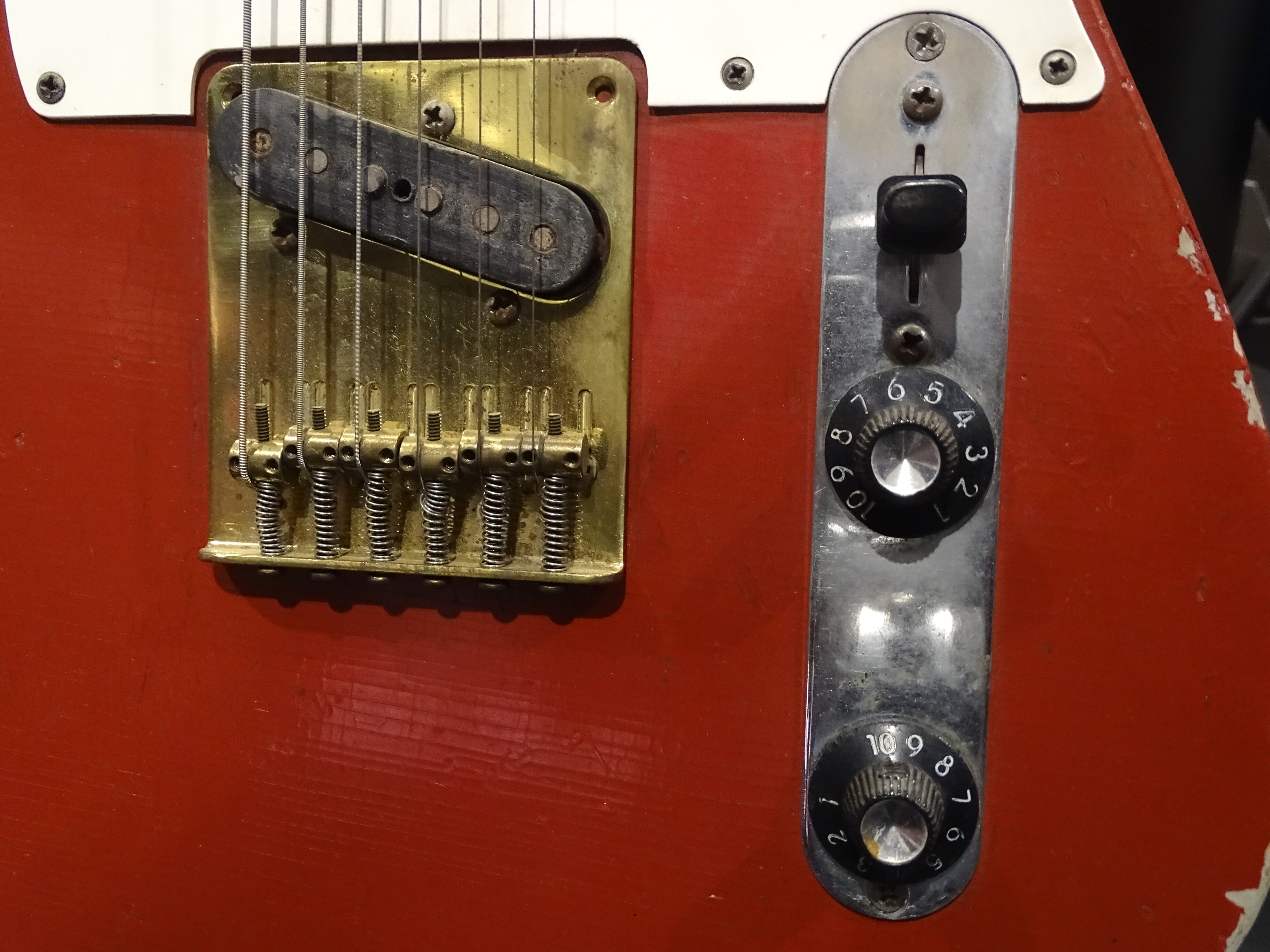 Detail of Muddy Waters 1958 Fender Telecaster Guitar - Rock & Roll Hall of Fame and Museum - Cleveland - Ohio - USA References Vince Gordon. Carl Perkins' Guitars and Amps. The Jime (the-jime.dk). Richard Bienstock (November 15th, 2012). Ohio Players: Gallery of Notable Guitars from the Rock and Roll Hall of Fame and Museum. Guitar Aficionado . NewBay Media, LLC. "" "Muddy Waters’ 1958 Fender Telecaster (above) — It’s fitting that this guitar is one of the first seen by visitors upon entering the Hall of Fame, as Waters, widely considered to be the father of electric blues, played a vital role in rock’s beginnings. He was associated with the Les Paul for his earliest electric recordings for Chess Records, but Waters soon began playing Telecasters as well. The 1958 model shown here, which Waters nicknamed Hoss, was one of his primary recording and performing guitars for much of his career. Reportedly, it began life with a blond finish and maple neck and subsequently was painted red and refitted with a wider neck with a rosewood fingerboard. The Hall of Fame received the guitar courtesy of Waters’ estate."